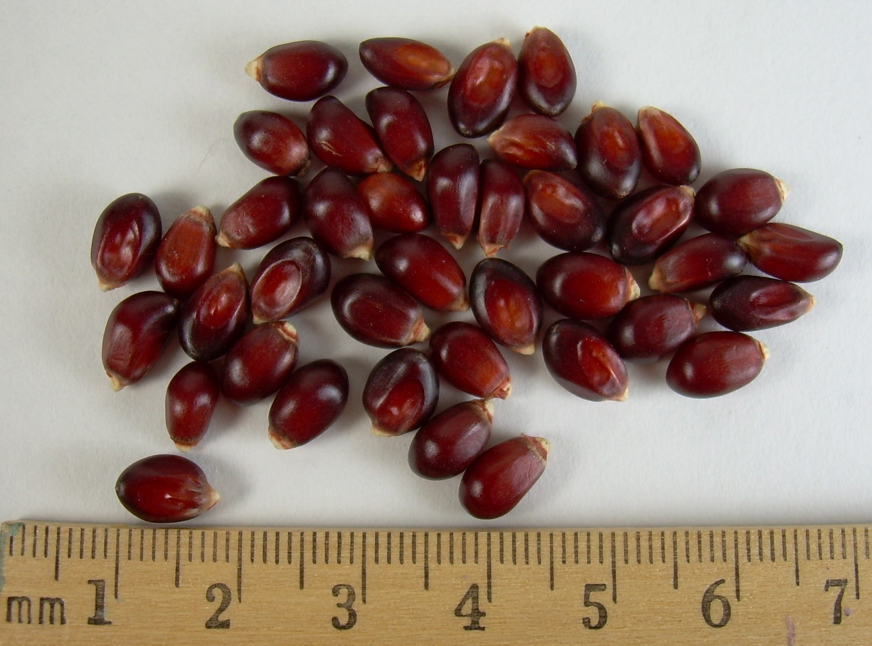 Kernels of a red, pearl-style corn ("popcorn") marketed under the US trademark "Crimson Jewell" by the Black Jewell Popcorn co.